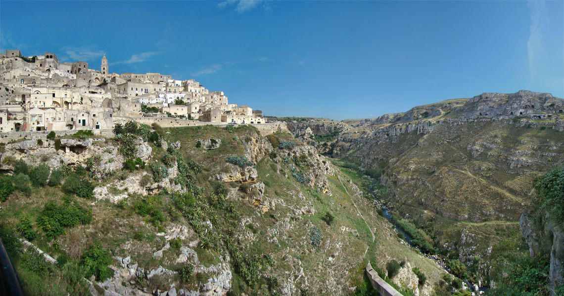 Matera, Basilicata, Italy. East part of the Sasso Caveoso on the edge of the Parco della Murgia Materana.